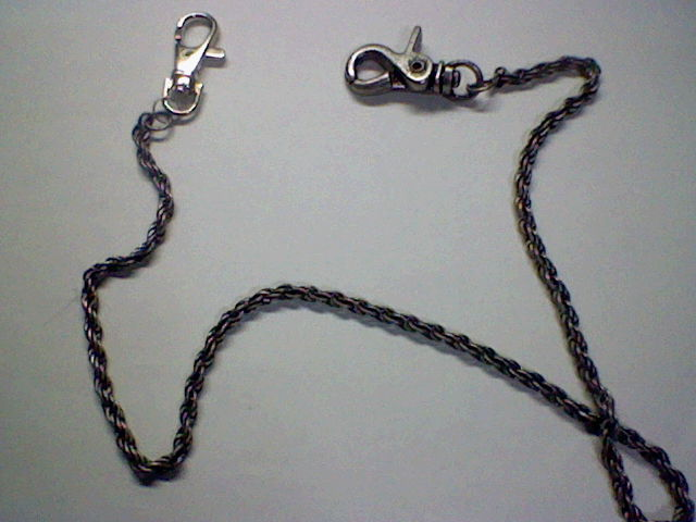 WORETTOCHEN.